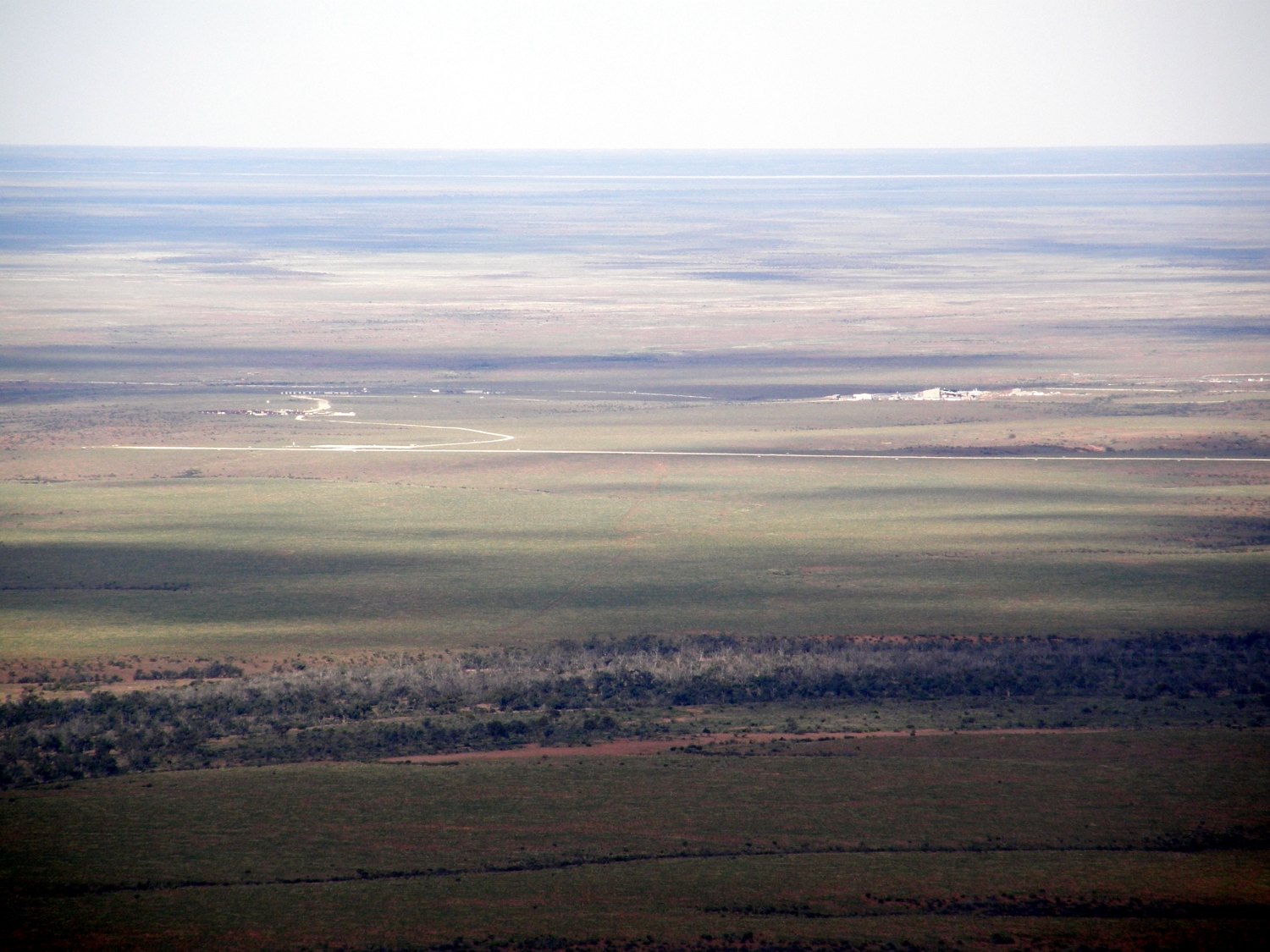 Beverley Uranium Mine, Frome Basin, South Australia: the village and access to the airstrip are on the left site of the image, the processing plant on the right. The leaching fields are to the right of the plant.